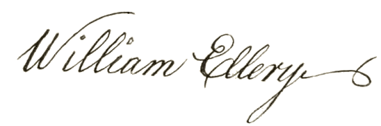 William Ellery's signature